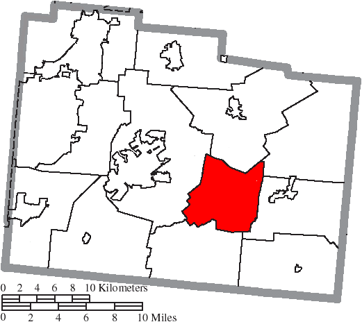 Map of the municipal and township boundaries of Greene County, Ohio, United States, as of the 2000 census, with the location of New Jasper Township highlighted. Township borders are shown only in unincorporated areas in order to differentiate incorporated and unincorporated areas more clearly.